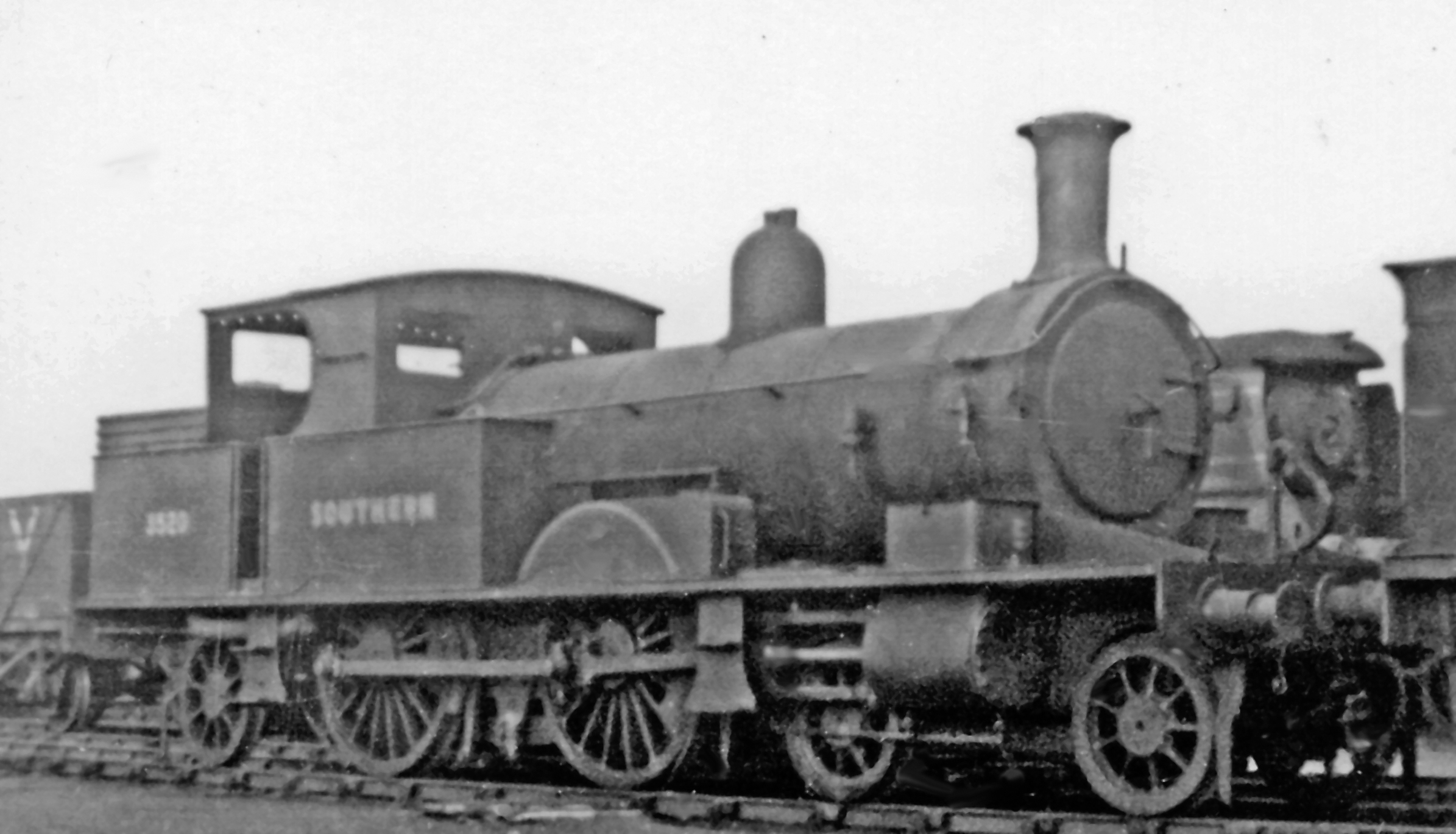 Ex-LSWR Adams 4-4-2T awaiting Works at Eastleigh. This is one of the five of 71 '0415' class 4-4-2T designed by Adams in the 1880s for London suburban work, which far outlived the others working the unique Axminster - Lyme Regis branch: No. 3520 was built in 12/1885 as No. 520, was later No. 0520, No. 3520 on the SR and withdrawn as BR No. 30584 in 2/61.